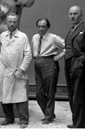 Polish artist Jan Rubczak (center) with the sculptor Stanisław Popławski to the left (man on right unidentified) at an exhibit of the Krakow Society of Friends of Art